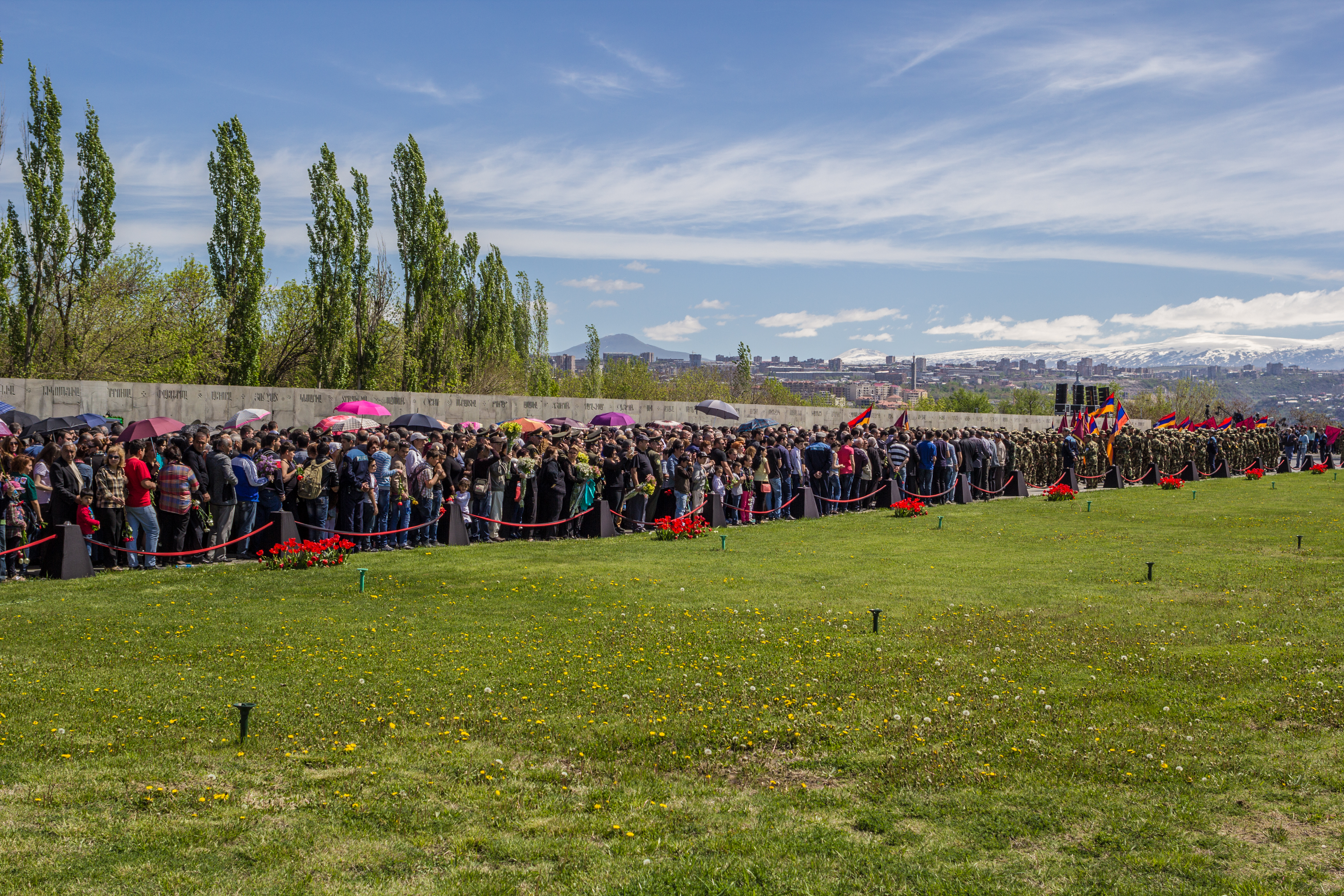 Armenian Genocide Remembrance Day 2014 at the Tsitsernakaberd Memorial in Yerevan, Armenia.